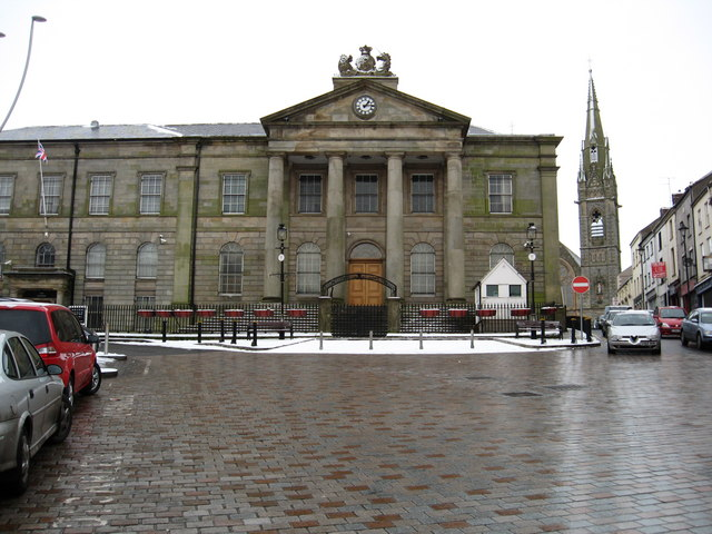 The Courthouse, Omagh in County Tyrone This magnificent piece of architecture dominates the High Street in the historic town.